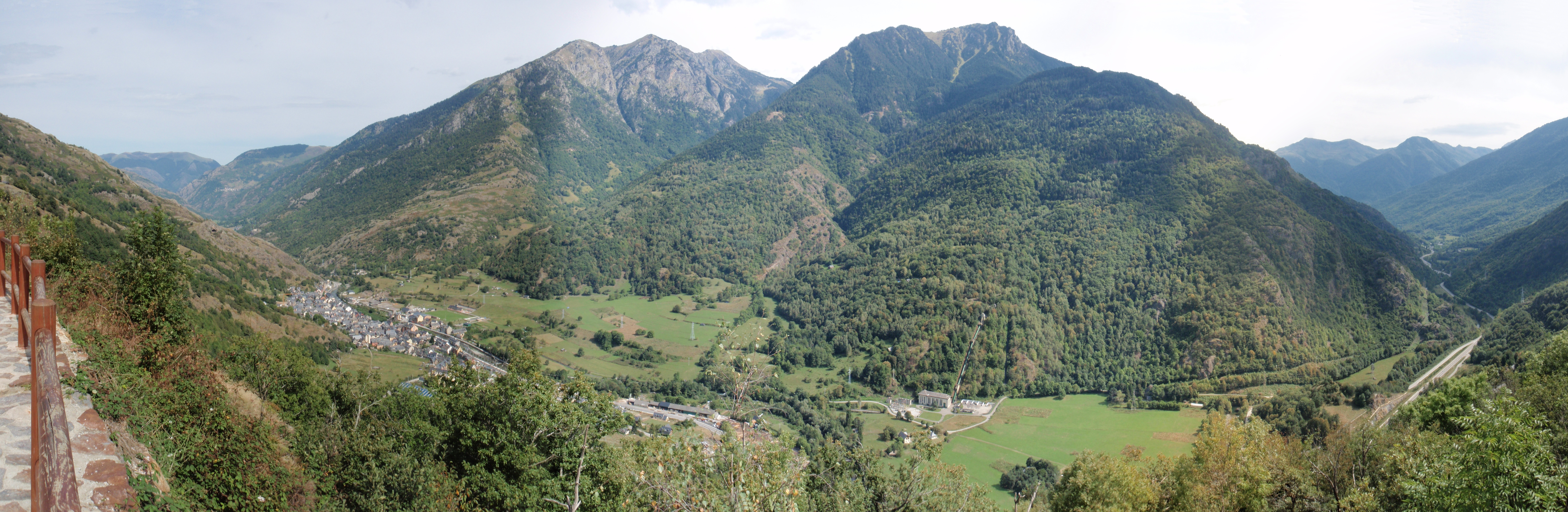 Panorama of the Aran Valley in Spain, with Bossòst to the left.